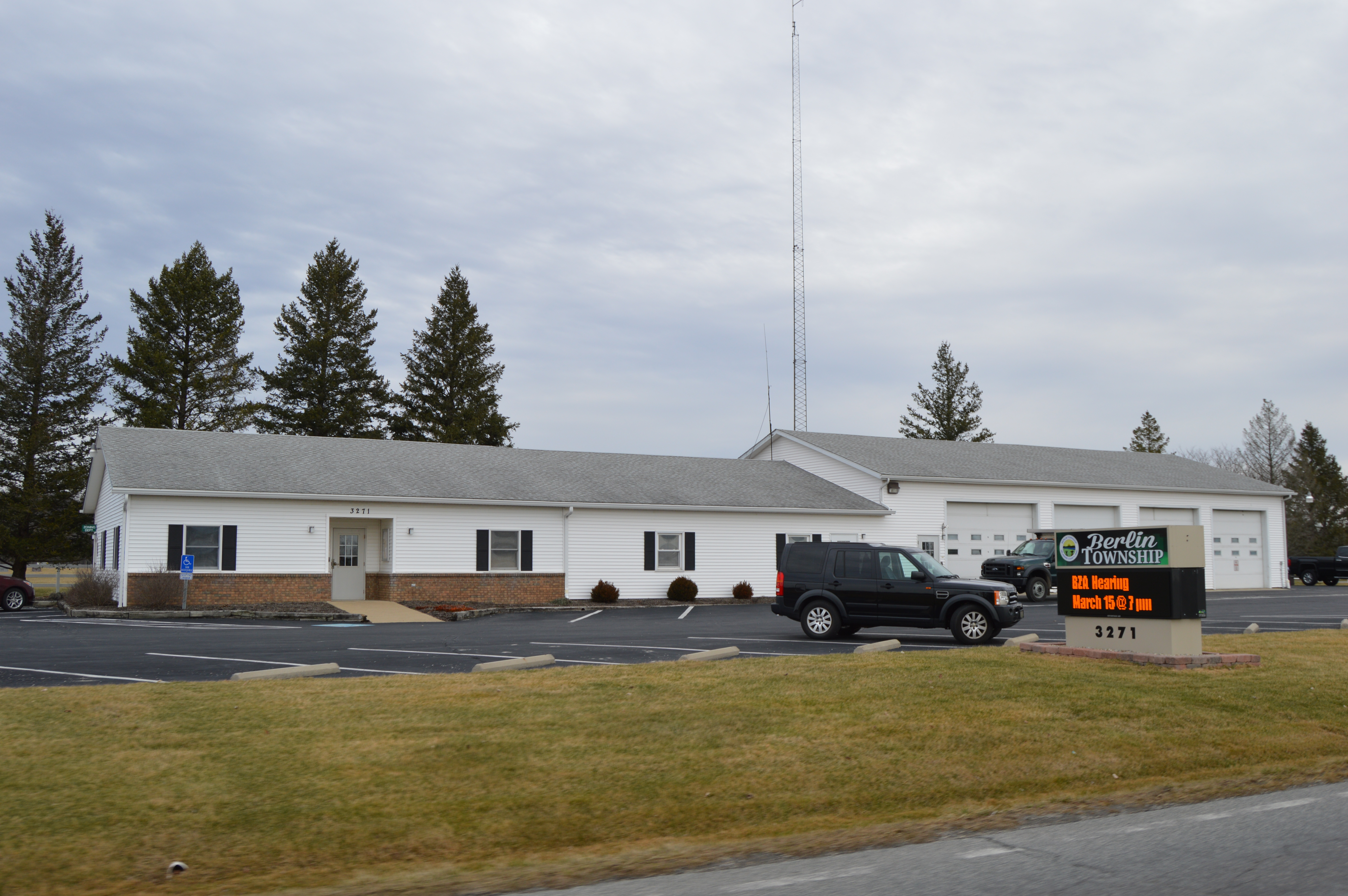 Front of the Berlin Township Hall, located at 3271 Cheshire Road in Berlin Township, Delaware County, Ohio, United States.